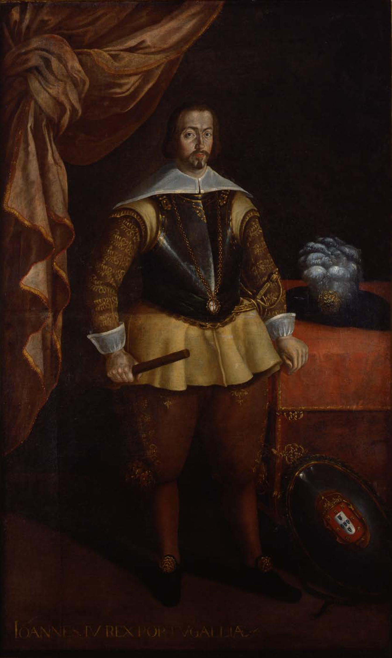 Portrait of King John IV of Portugal, 1643, by José de Avelar Rebelo (Palace of Vila Viçosa)